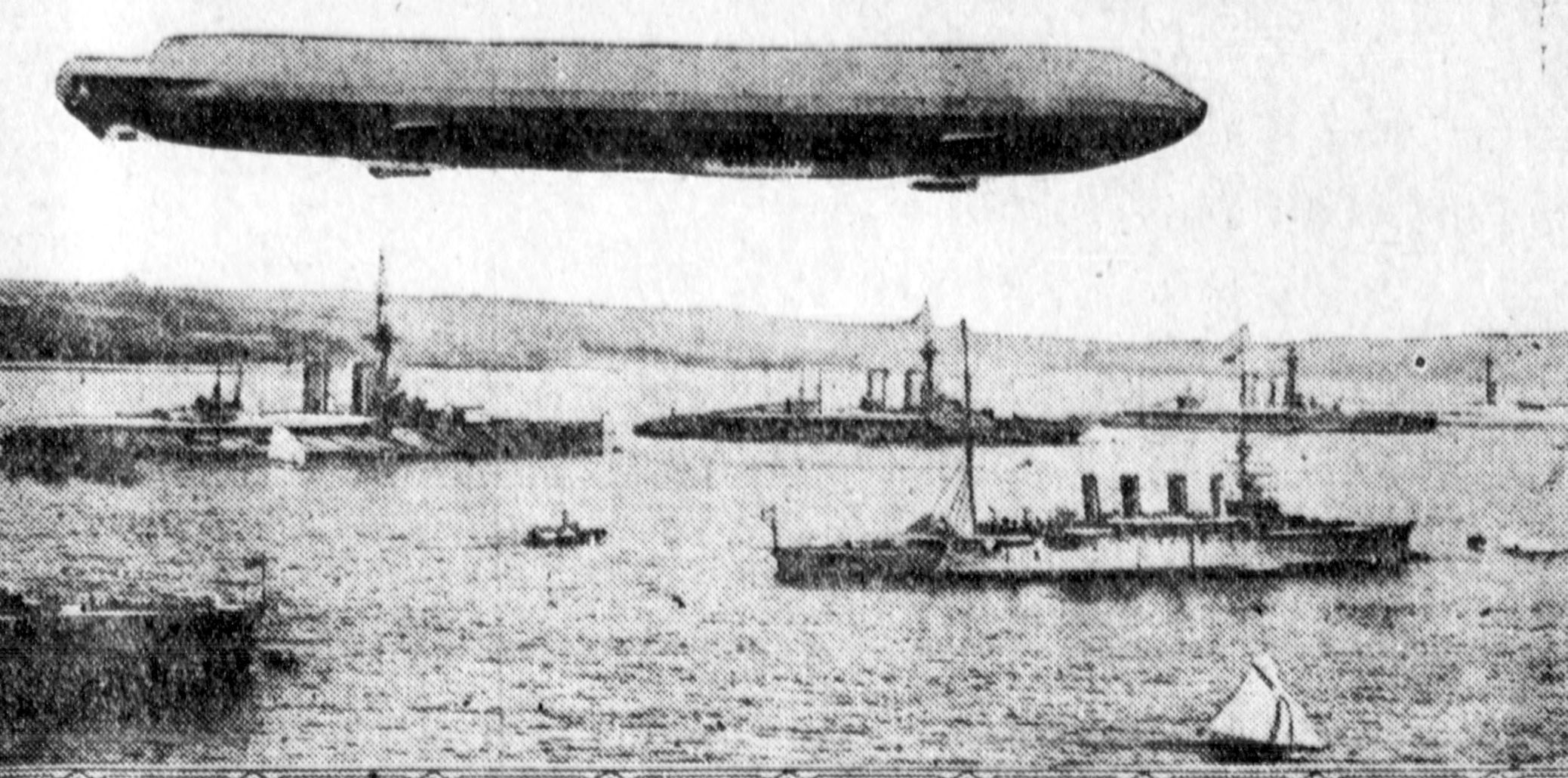 Originally captioned: German dirigible hovering over British fleet. Uploaders note: Further research seems to currently point to this image not being a 1914 image (seems to be earlier--- 1912 or earlier), although it was implied to be from 1914 in original source.